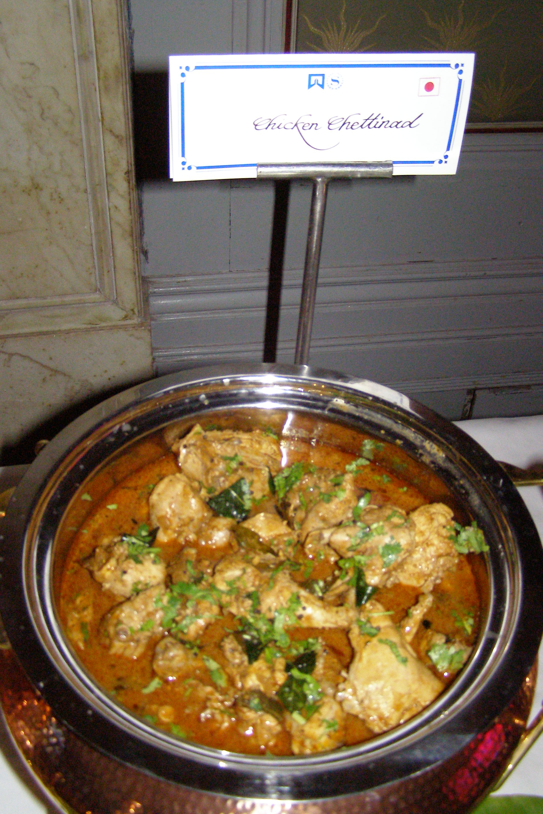 Chicken Chettinad, South Asian, South Indian Cuisine, Non-Vegetarian, New Delhi Sheraton Hotel Ballroom, 05 May 2007